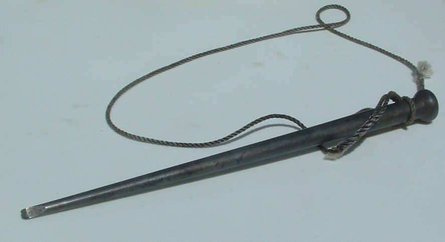 I took this picture. -AComrade 18:52, 16 July 2006 (UTC)